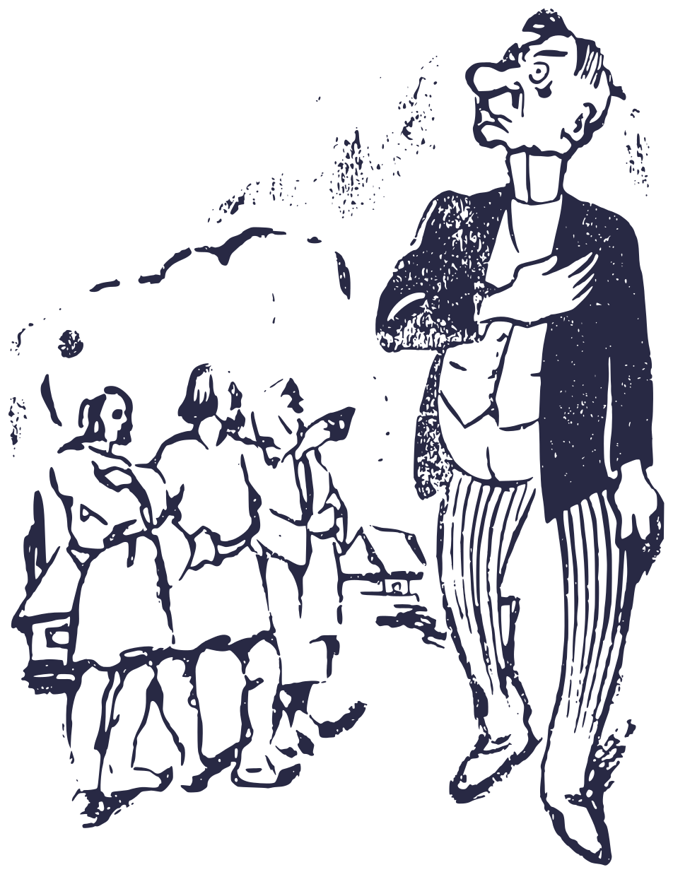 Cartoon from a propaganda leaflet of the Romanian Communist Party, ridiculing Iuliu Maniu of the National Peasants' Party as an effete landowner with no contact with the peasant base (also detailed with an accompanying poem, not included here); circulated ahead of the November 1946 election.